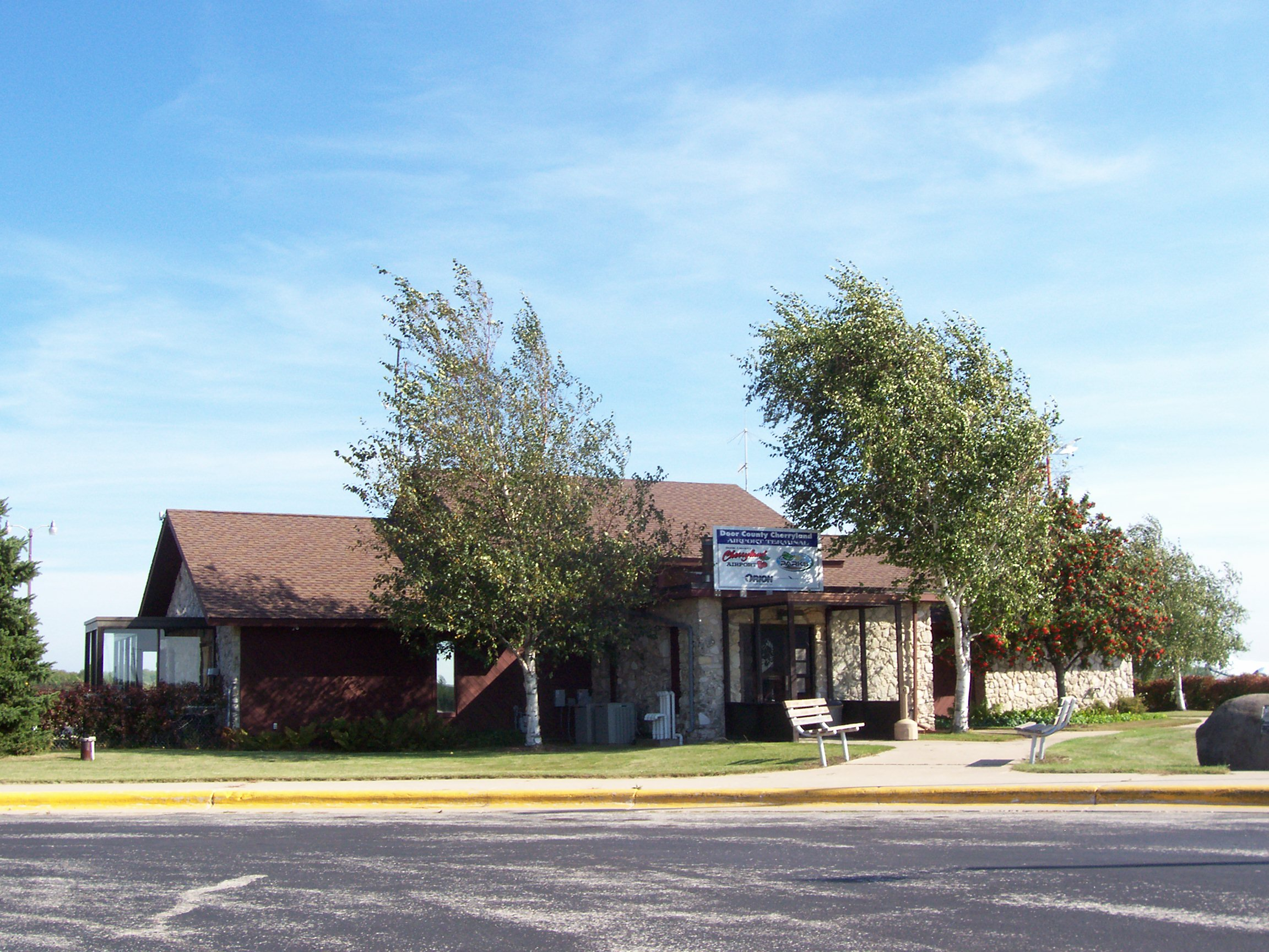 Looking east at the terminal for Door County Cherryland Airport, several miles west of Sturgeon Bay, Wisconsin.